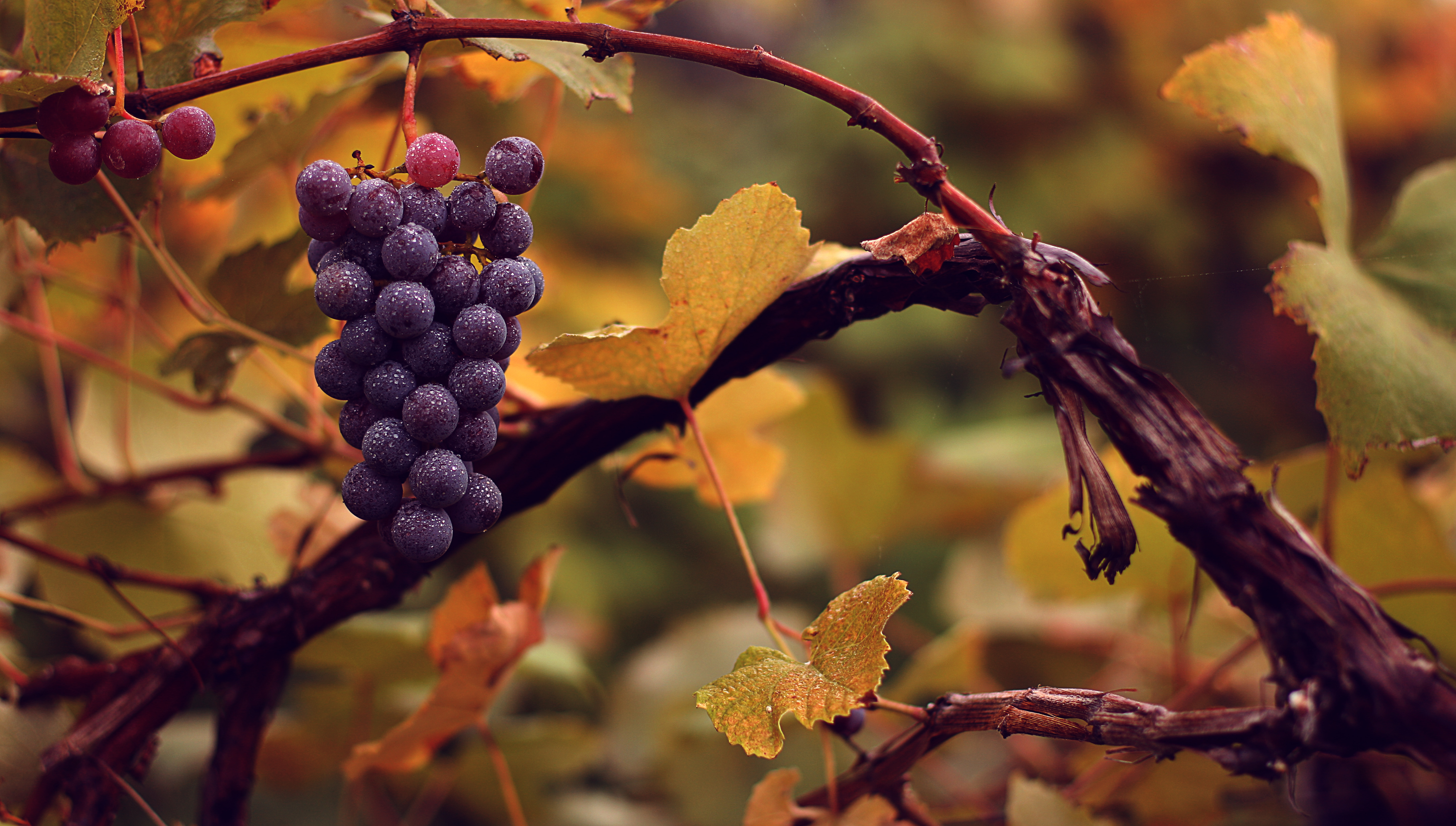 A cultivated Common Grape Vine, Vitis vinifera subsp. vinifera